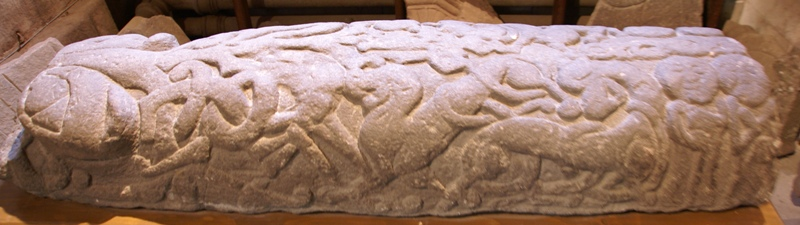 Brechin Cathedral, Brechin, Angus, Scotland - Hogback